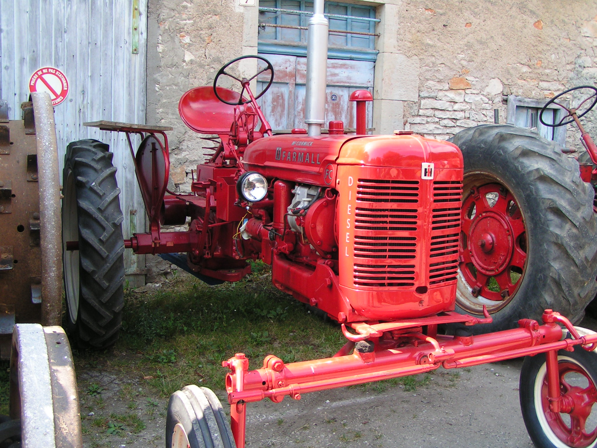 An old International Harvester (IHC) McCormick International Farmall Diesel FC tractor – please add information if you know more about this type/model